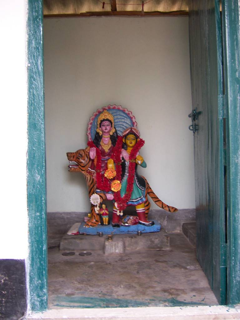 Ban Bibi, the sacred godess of Sundarban Another incarnate, yes.